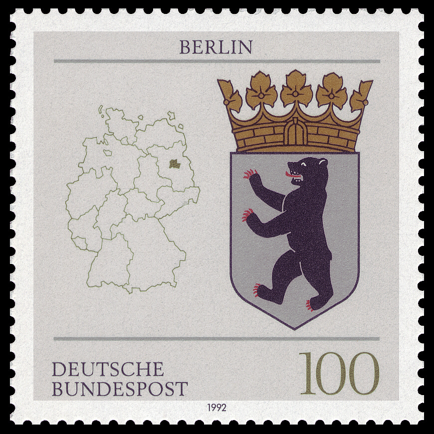 Coats of arms of the 16 states of Germany Ausgabepreis: 100 Pfennig First Day of Issue / Erstausgabetag: 11. Juni 1992 Michel-Katalog-Nr: 1588 Designer: Jünger